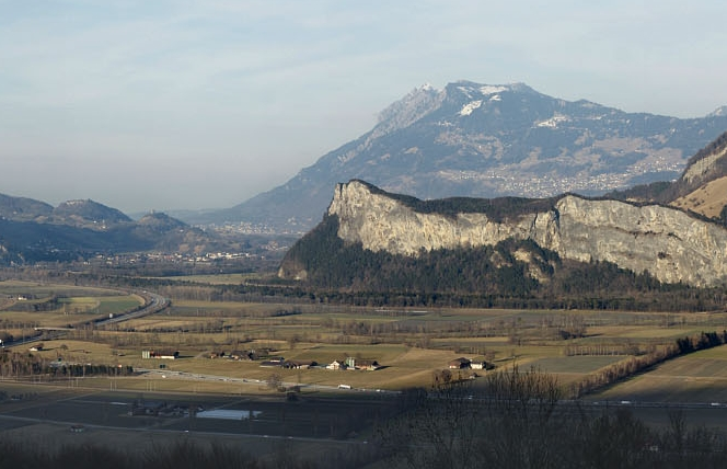 Ellhorn (Switzerland) seen from Vilters/South